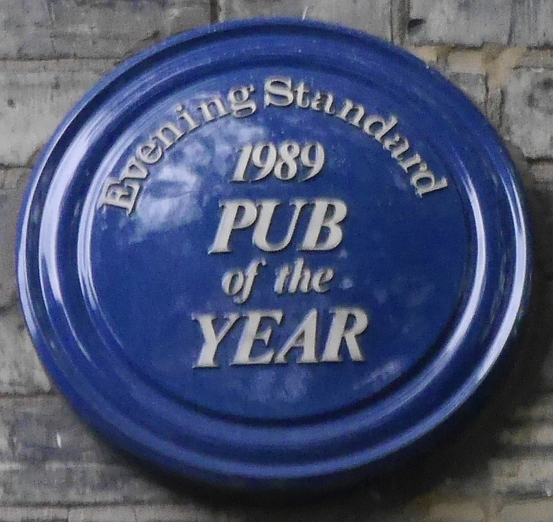 Scarsdale Tavern, Kensington, London